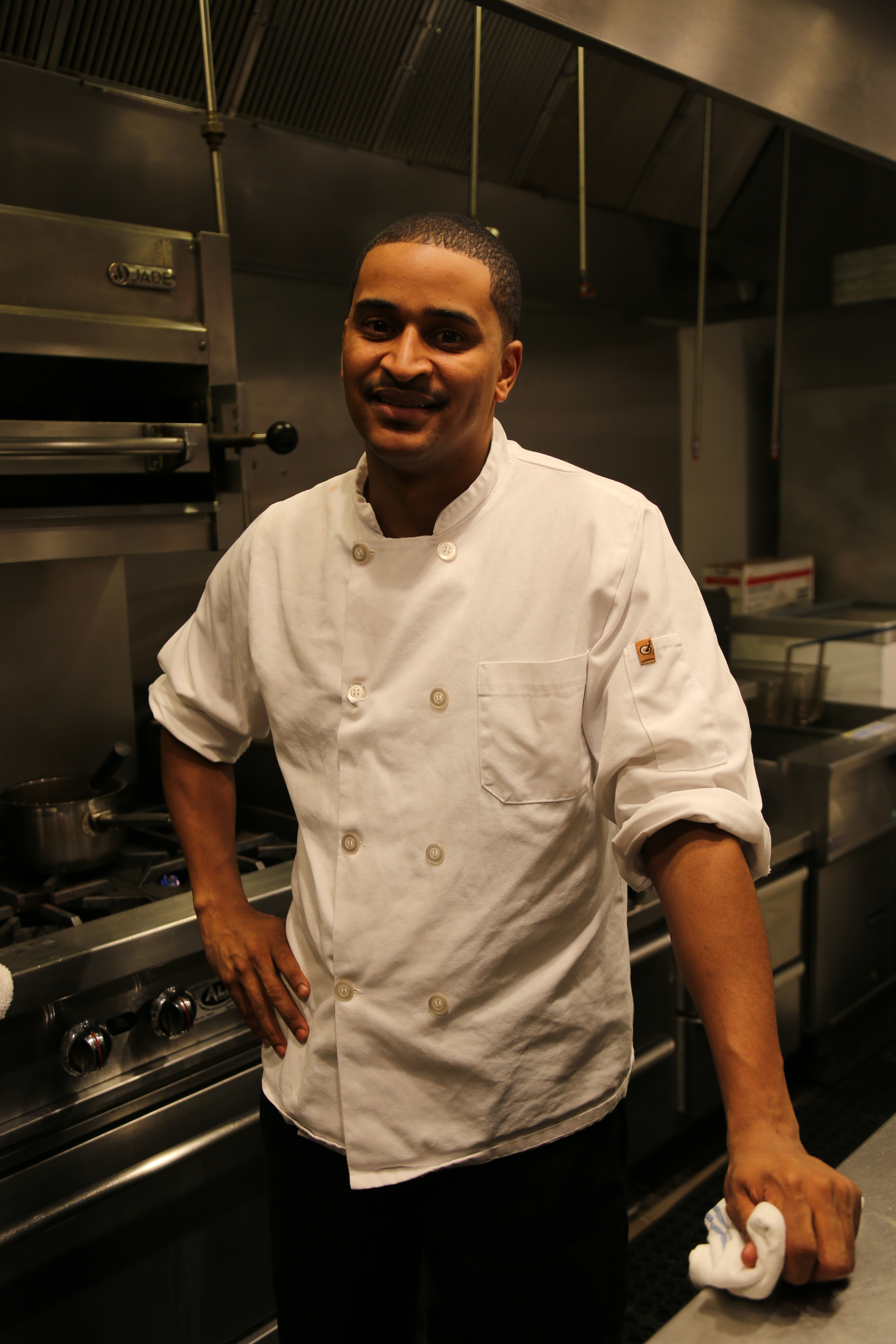 Joseph Johnson poses in The Cecil kitchen.